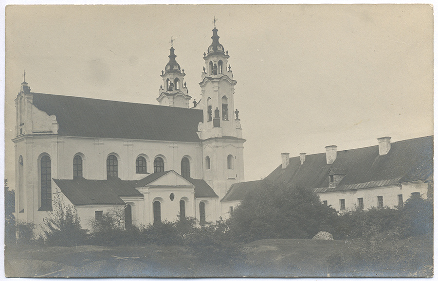 Catholic church of St. George and the Monastery of Dominican in Zabieły (Vałyncy)